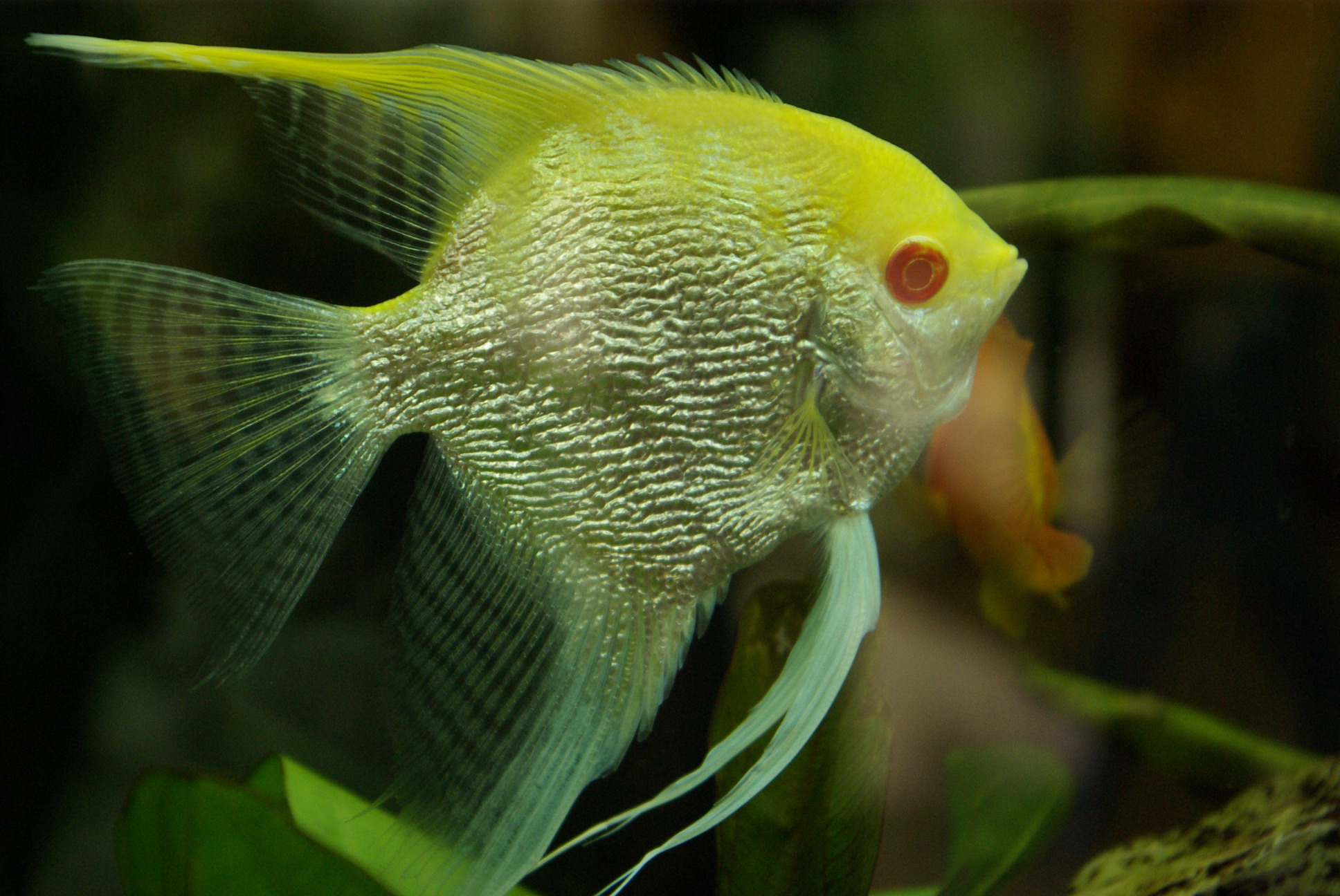 Pterophyllum scalare - Beijing, China